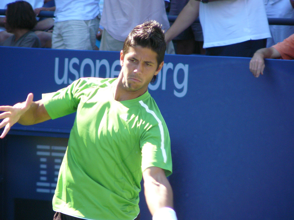 Spanish tennis player Fernando Verdasco in US Open 2008